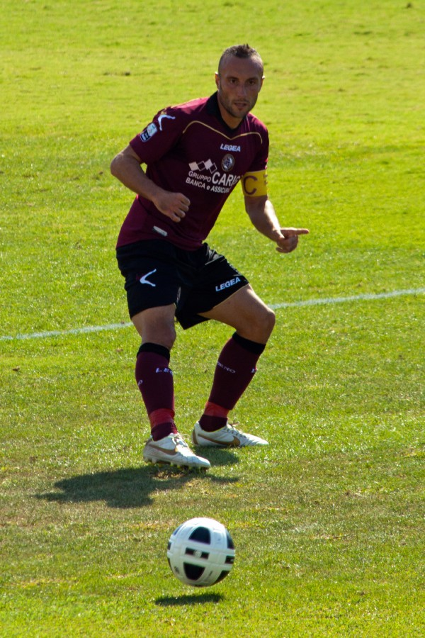 Andrea Luci Livorno's player 2012/2013